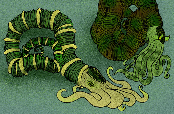 Reconstructions of the Late Cretaceous heteromorph ammonites Madagascarites (Ryuella) ryu, and Nipponites mirabilis, of what is now Japan.